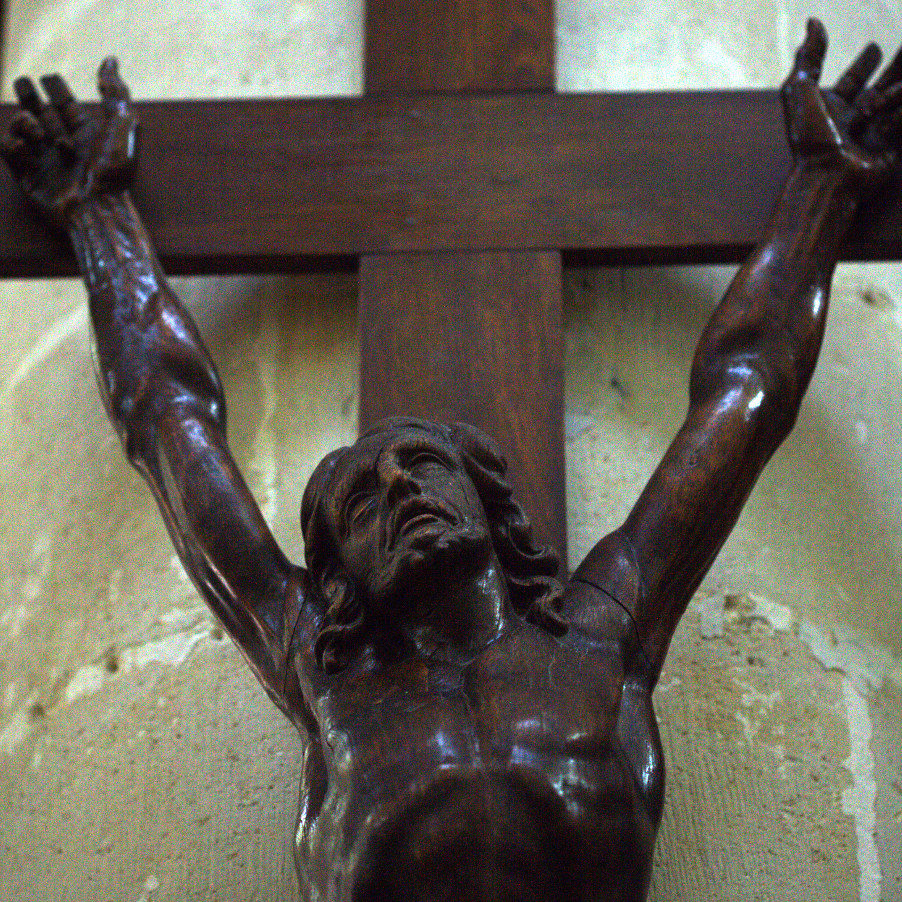 Crucifix in Notre-Dame de Senlis